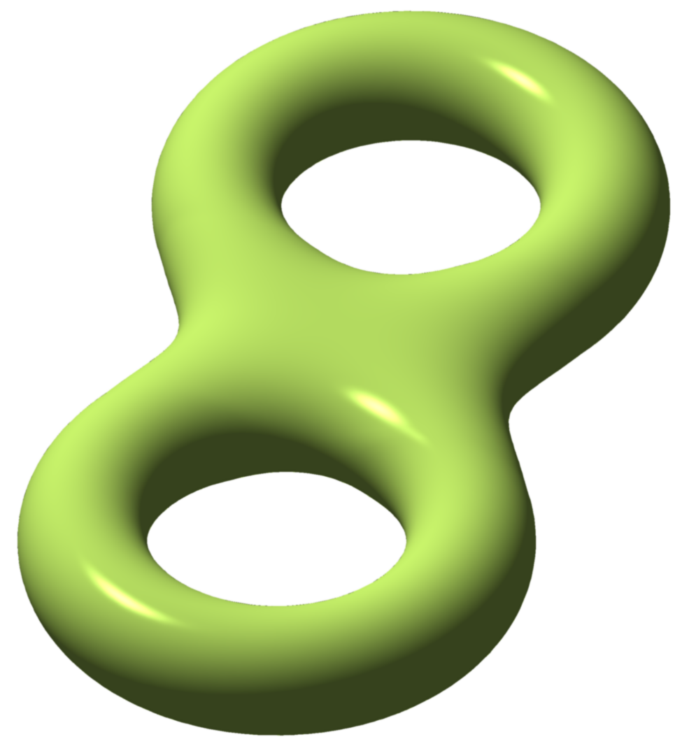 Illustration of Double torus